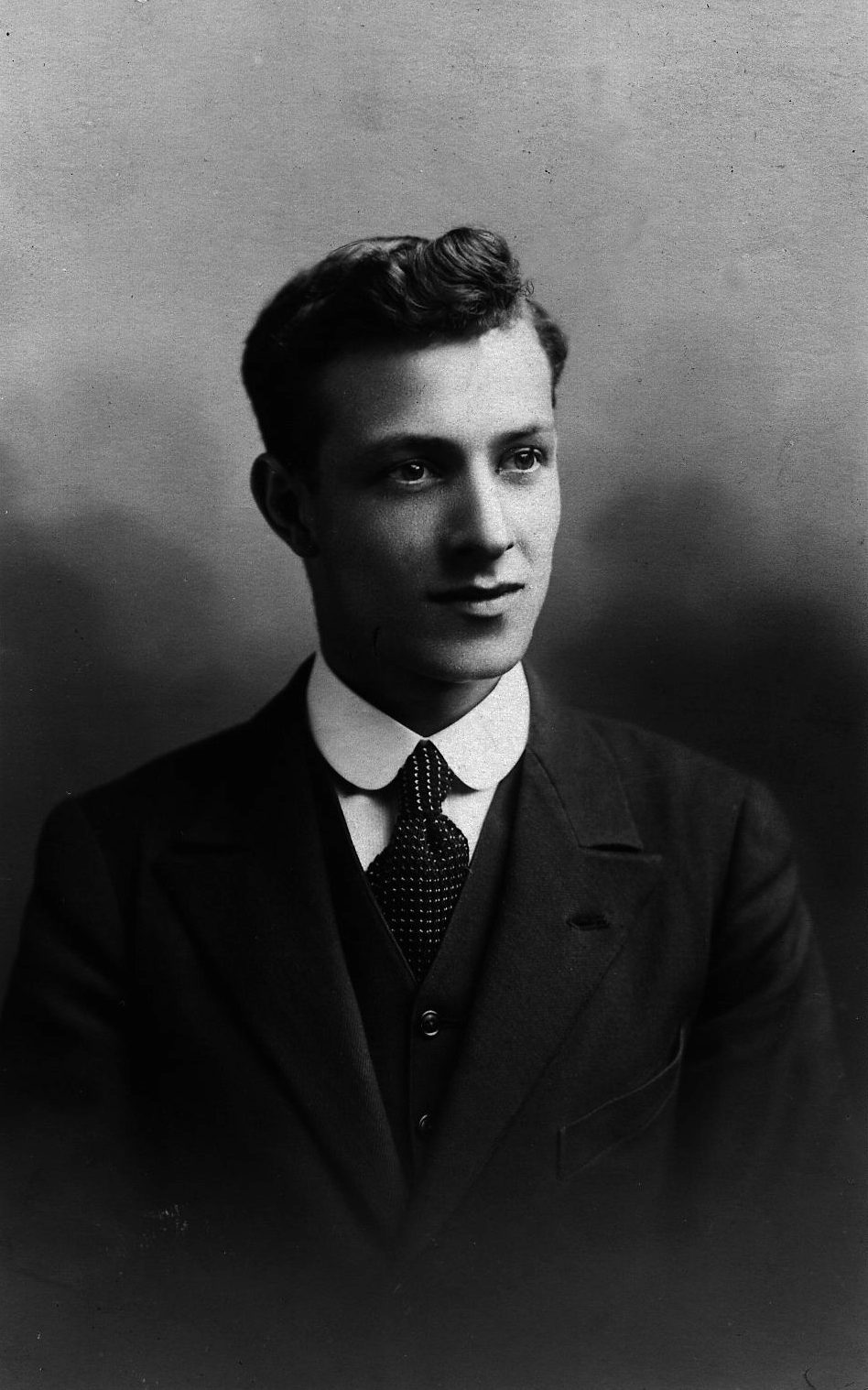 Rudolf Alfred Bosshardt as a young man. Served with the China Inland Mission.